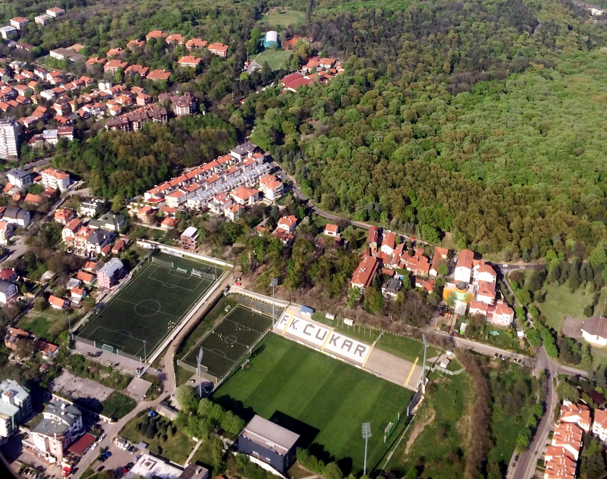 Aerial view over the football stadium of F K Čukaricki, a team in Banovo Brdo (Čukarica municipality) in southern Beograd, Serbia.